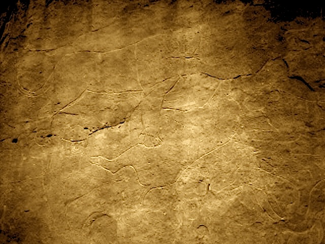 Picture taken from Kef Lemsaoura between Souk Ahras and Sedrata, shows préhistoric (6000 years BC) rock paintings of 2 lions. Also represented on the gravings 4 other lions, a boar, two jackals, one hyena two ostriches and a bull, along with other non distinctif motifs.